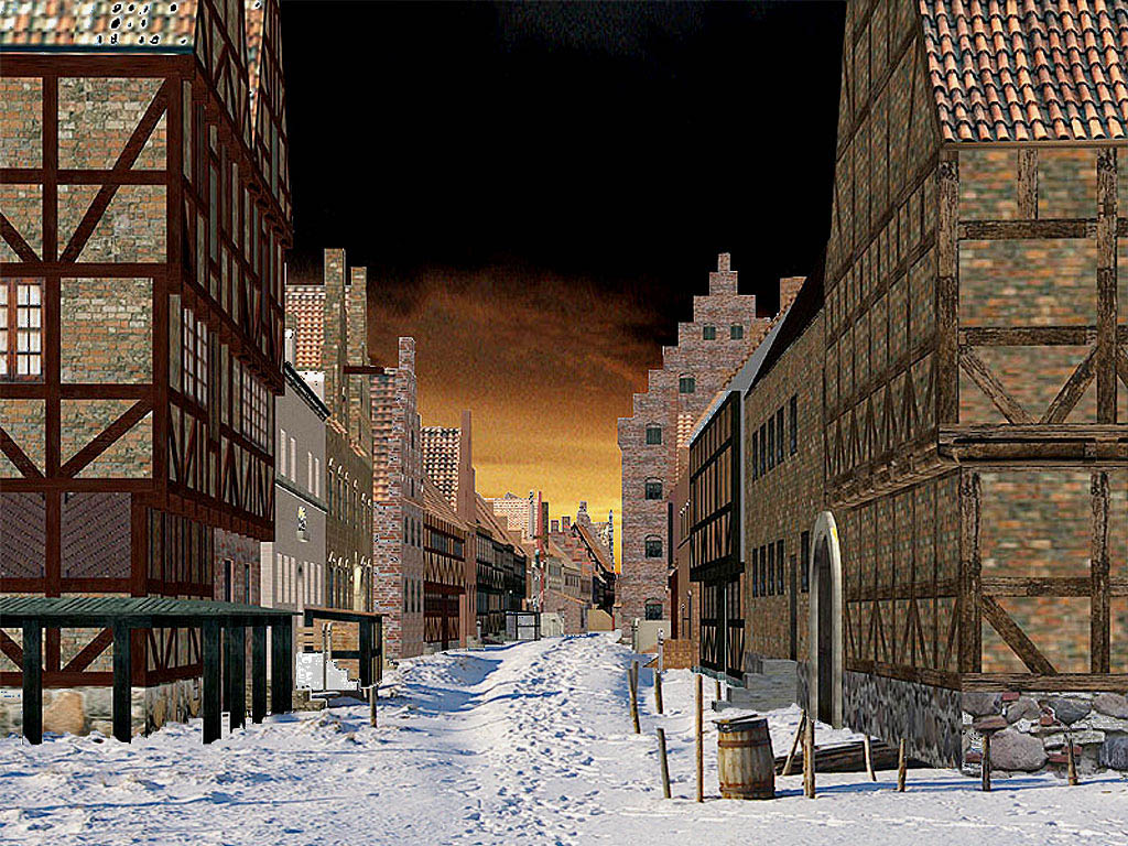 Reconstruktion of a street in Malmo, Sweden in the year 1692.